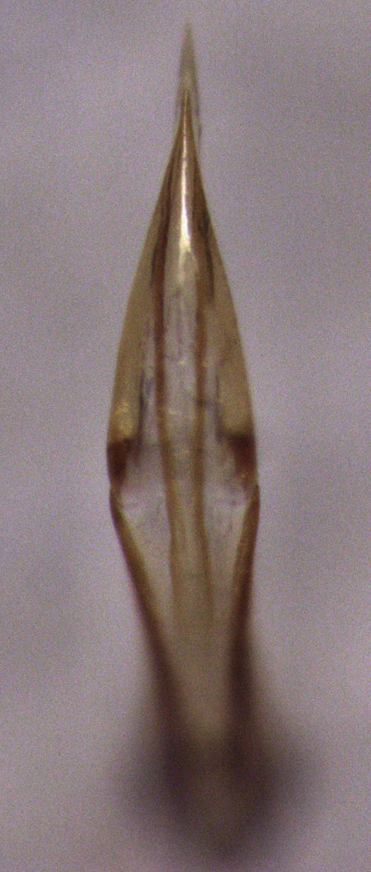 aedeagus of Sapintus deitzi